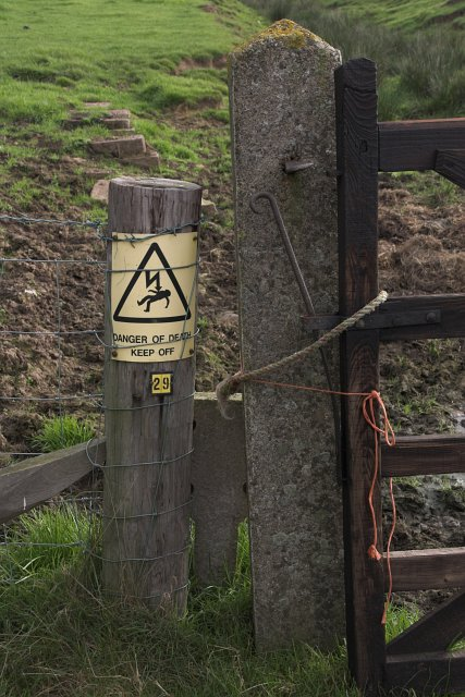 Electric pole re-used in fencing The warning sign gives away the original use of this strainer post. The heavily creosoted poles are excellent for strainers and gateposts and last for decades in their new life.